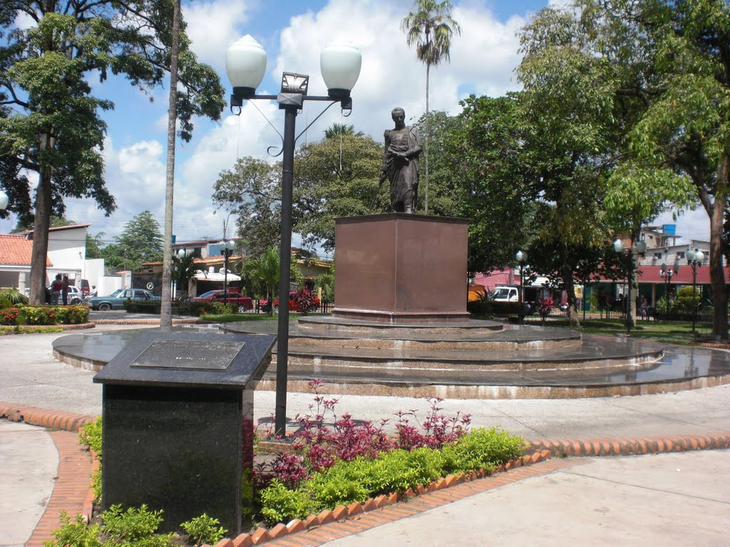 Bolívar place